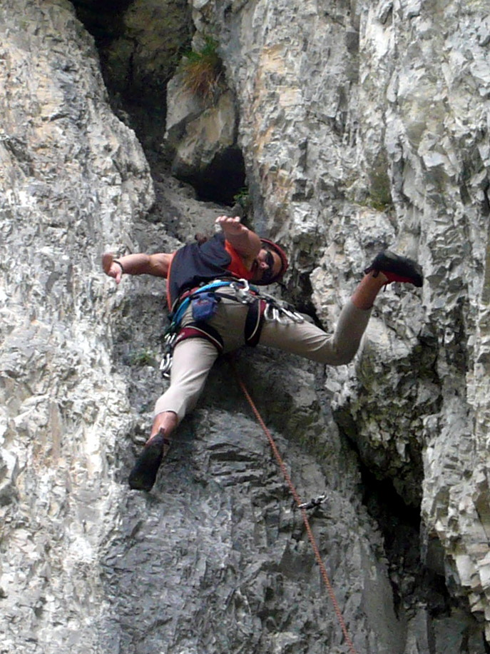 No-Hands Rest